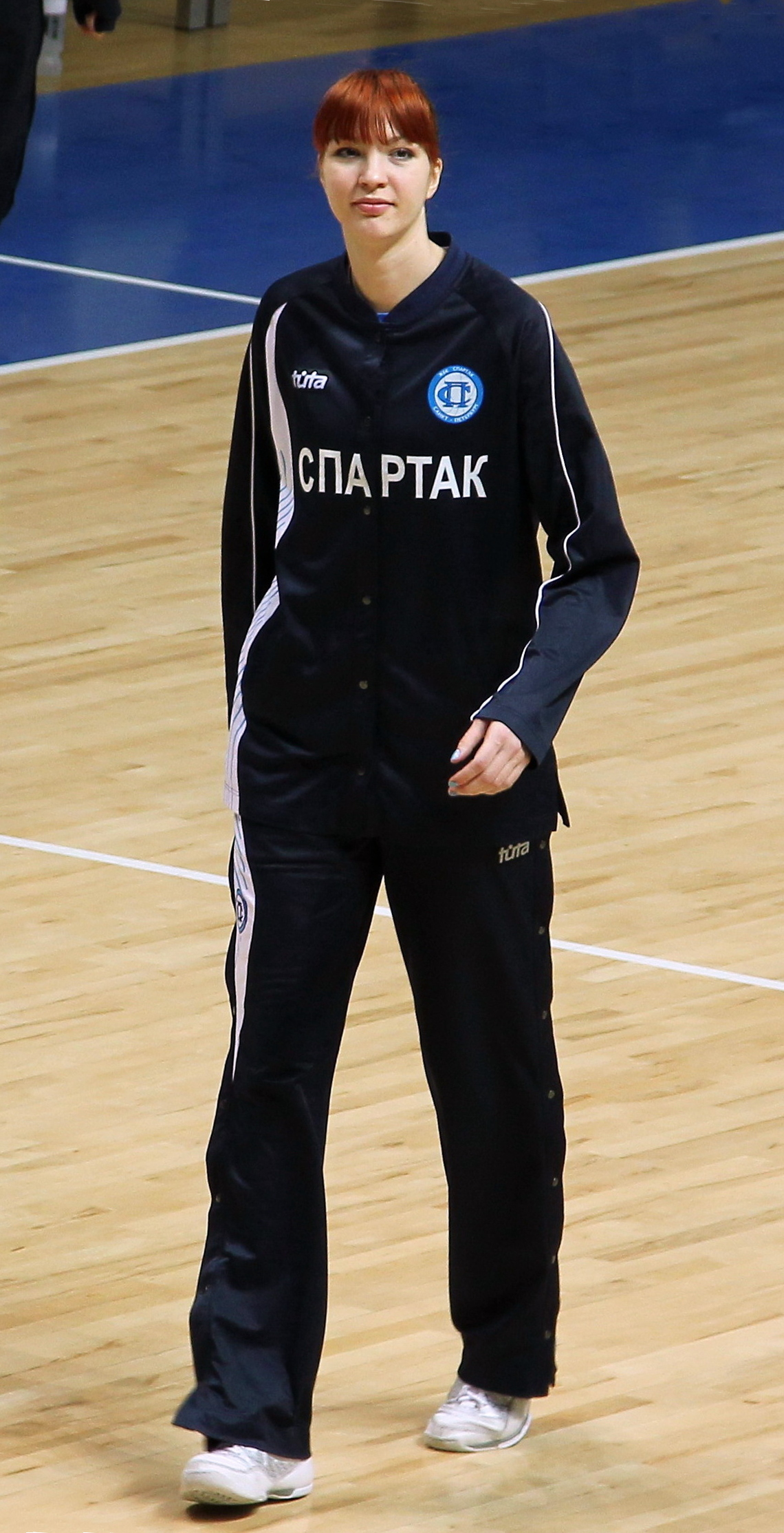 Russia, Alexandra Kulicheva in game «Vologda-Chevakata» vs Spartak (St. Petersburg)